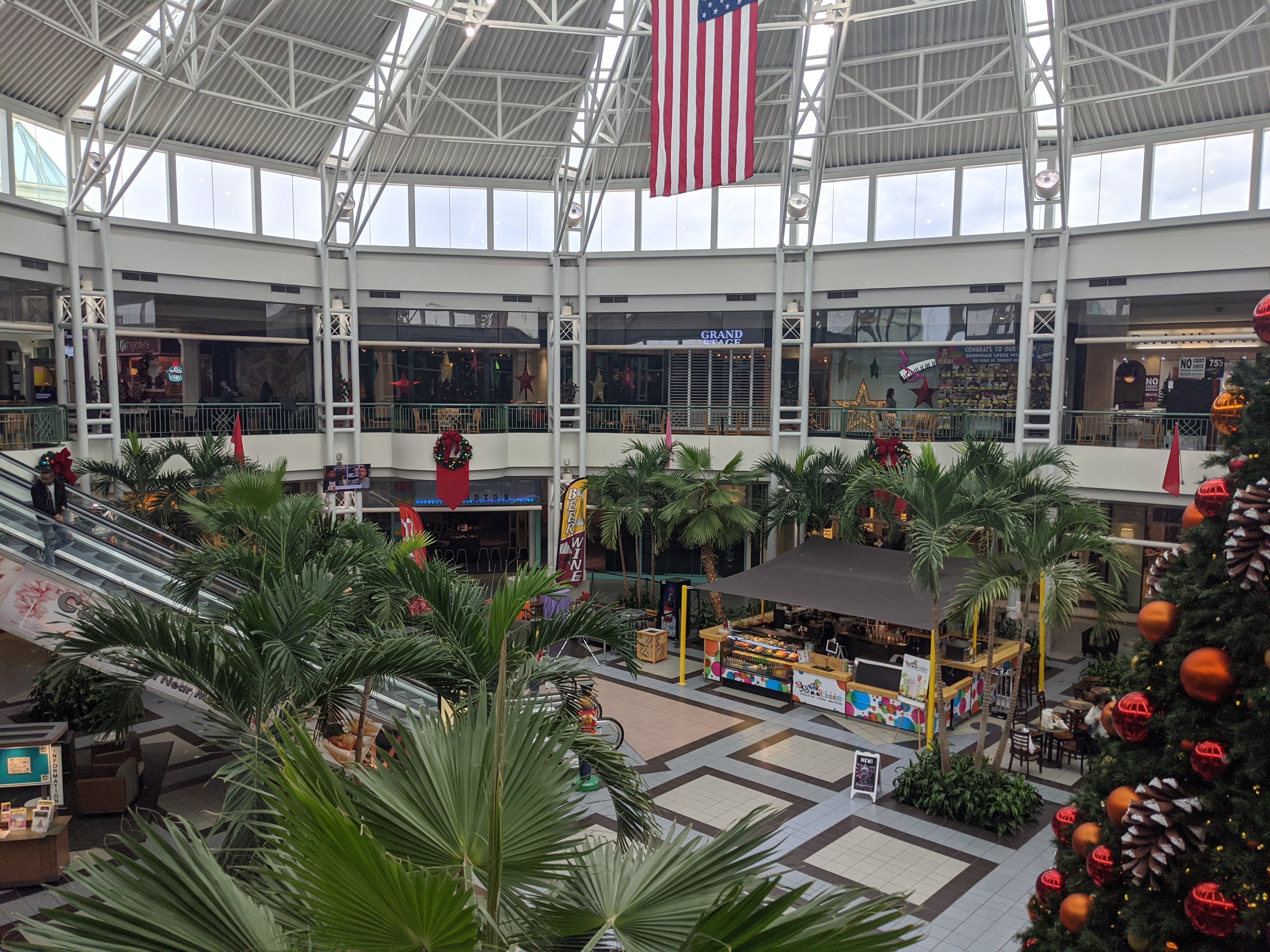 A grant rotunda that ties the place together